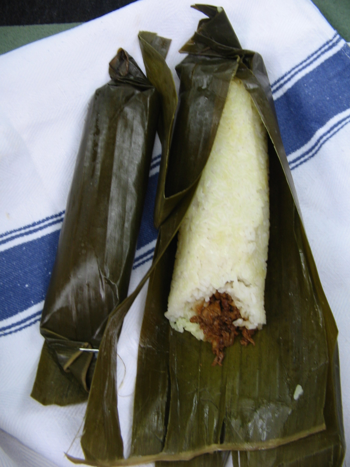 Arem-arem, filled rice covered with banana leaf.